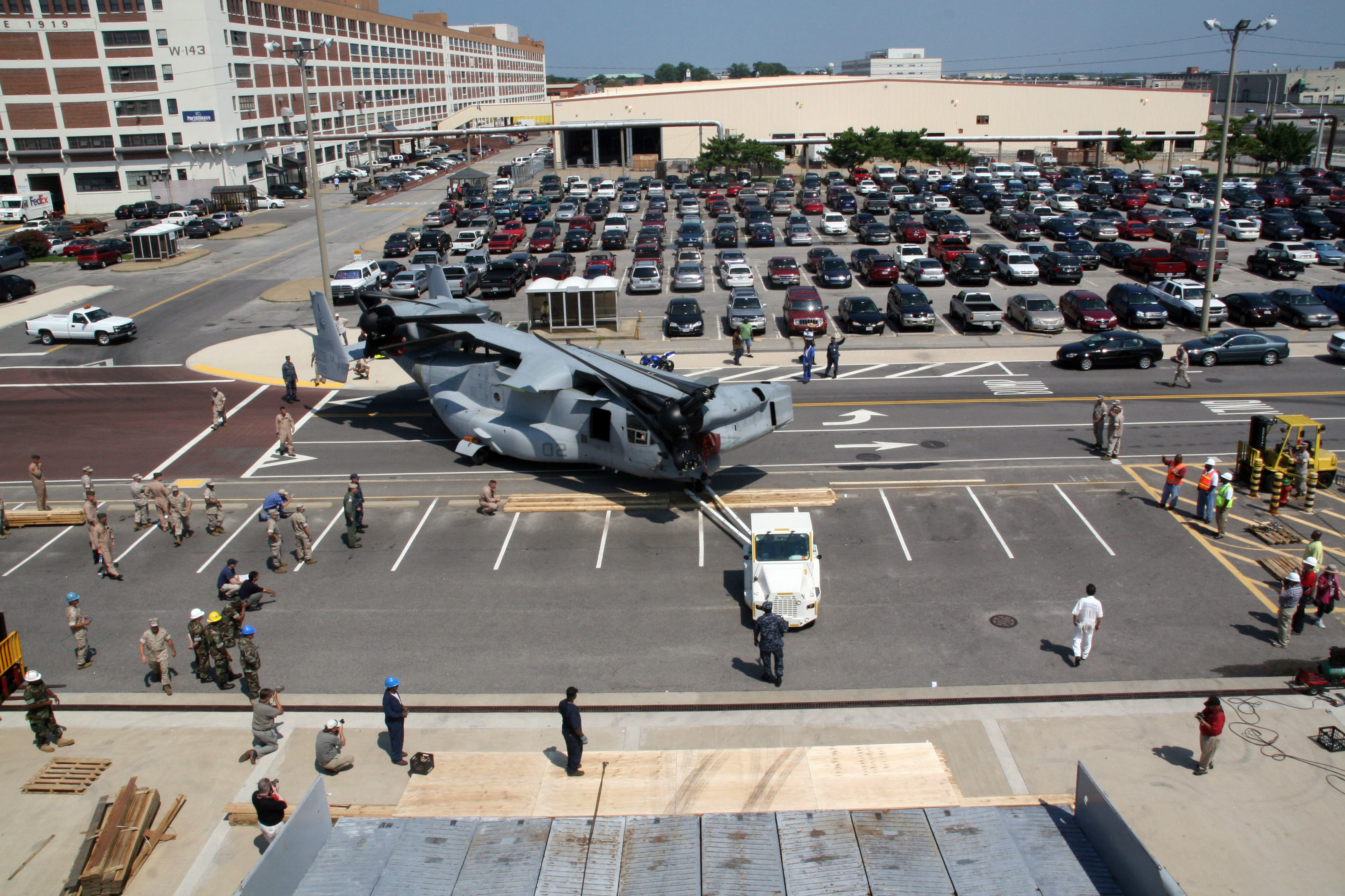 NORFOLK (Aug. 11, 2009) Navy cargo personnel from Handling Battalion 11 of Jacksonville, Fla., participate in the loading of the Marine Corps MV-22 Osprey tilt-rotor aircraft at pier seven, Naval Station Norfolk, in Norfolk, Va. (U.S. Navy photo by Mass Communication Specialist 2nd Class Edward D. Luchetti/Released)